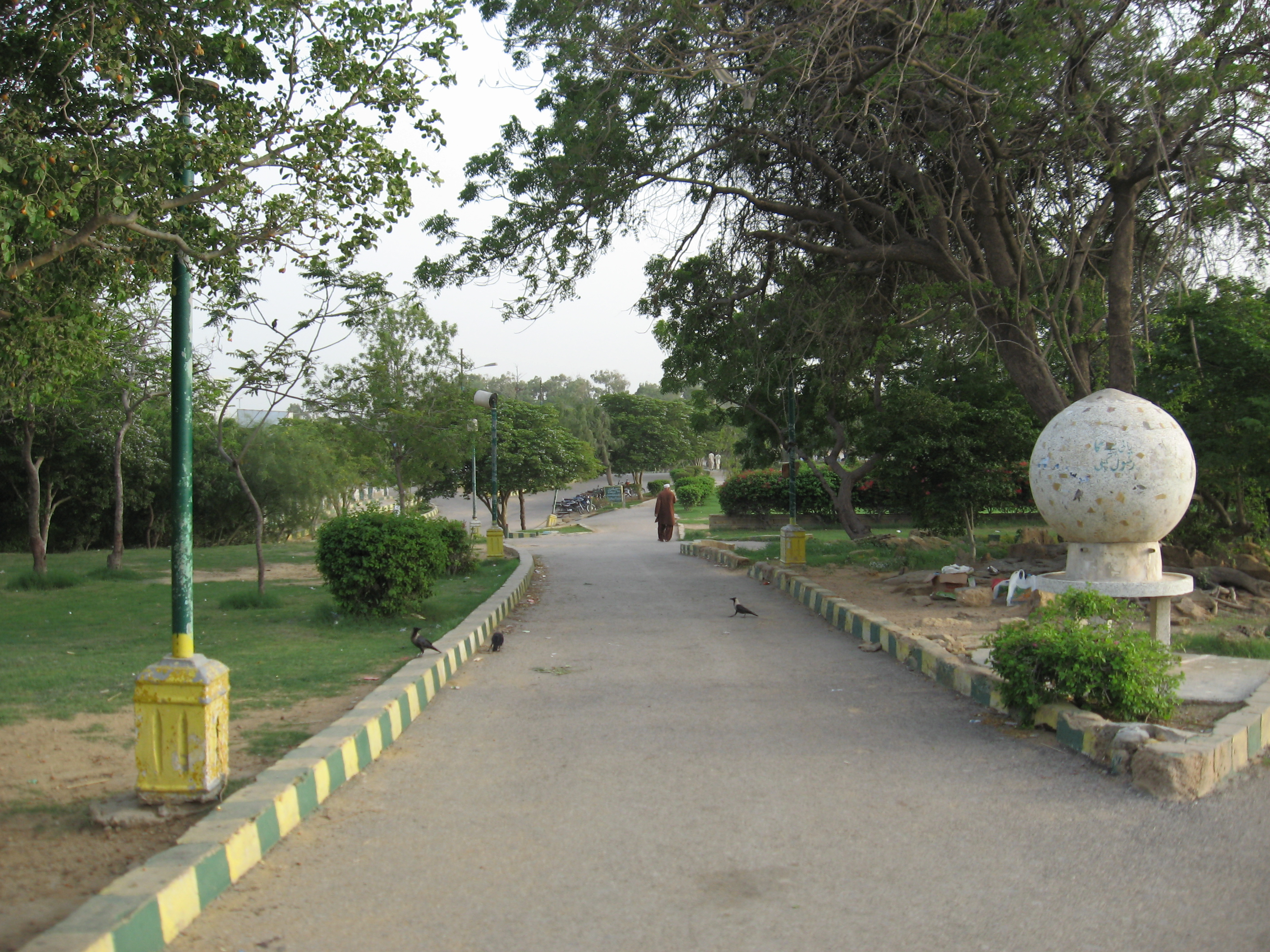 A view of Hill Park, Karachi